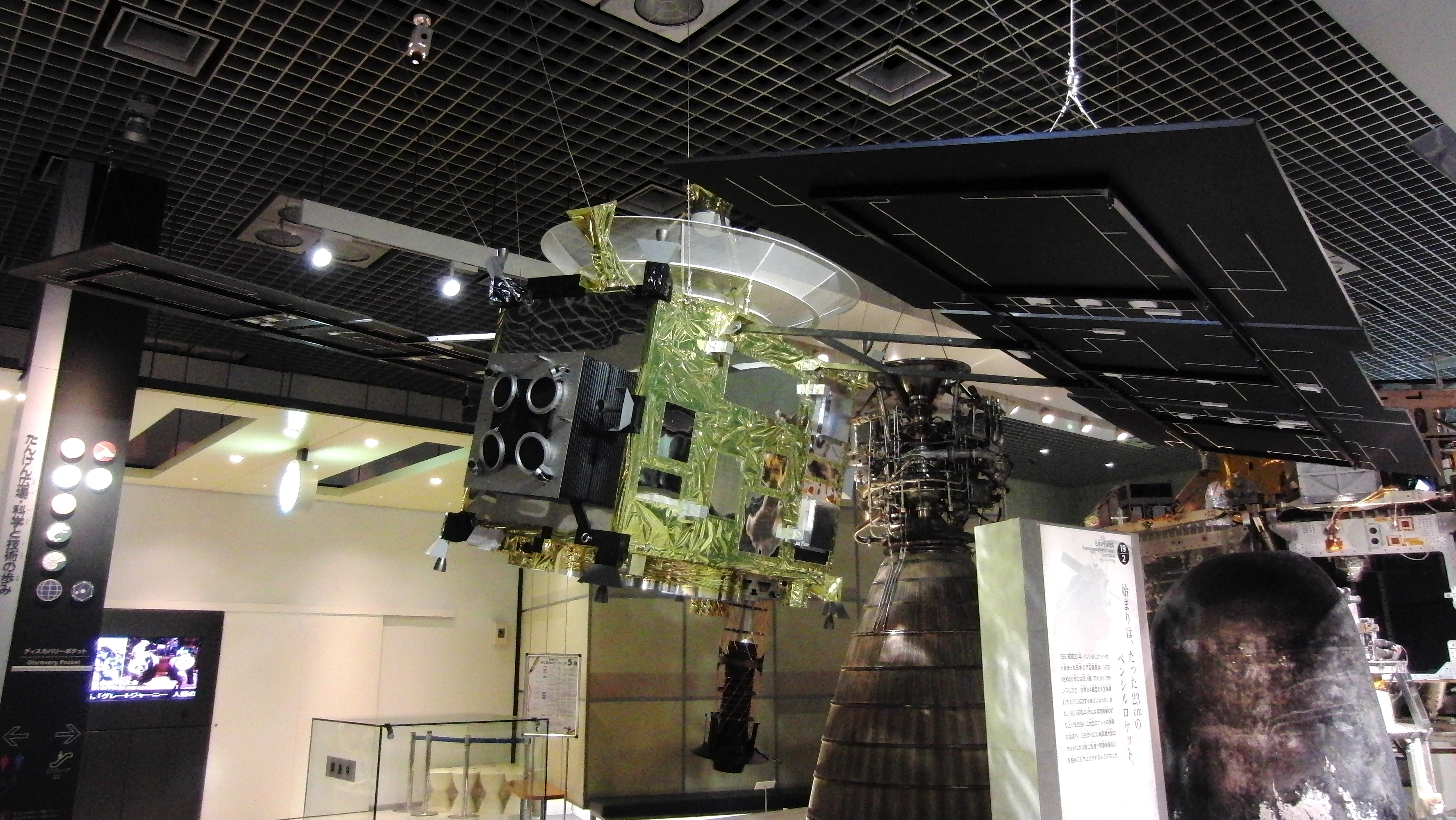 Actual size restoration model of "Hayabusa". Exhibit in the National Museum of Nature and Science, Tokyo, Japan. This model was made for shooting the movie "Hayabusa: Harukanaru Kikan".